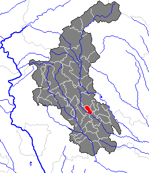 This map shows the area of the Gemeinde (municipality) Preßguts in the Bezirk (district) Weiz, Styria, Austria.